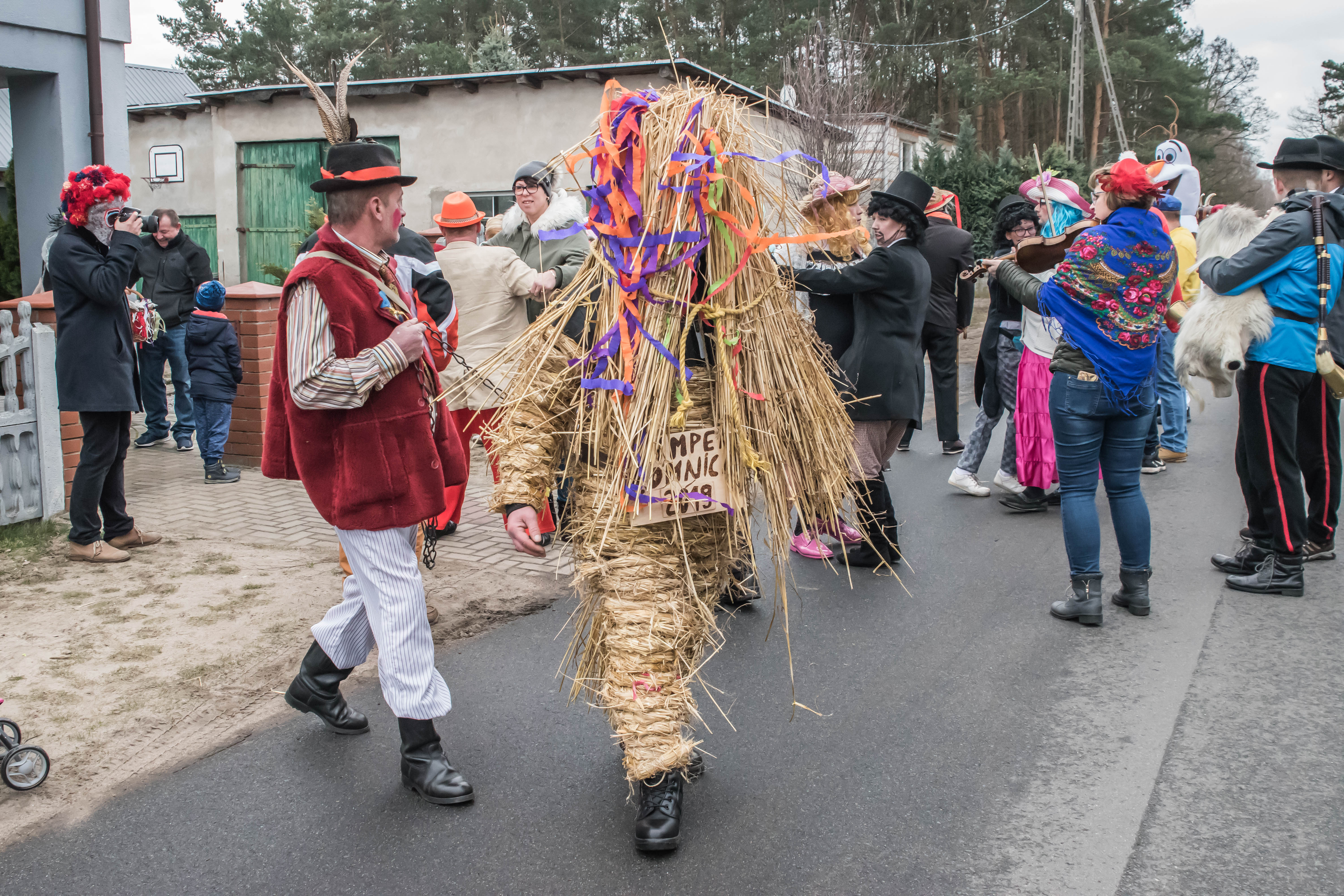 This photo has been taken in the country: Poland